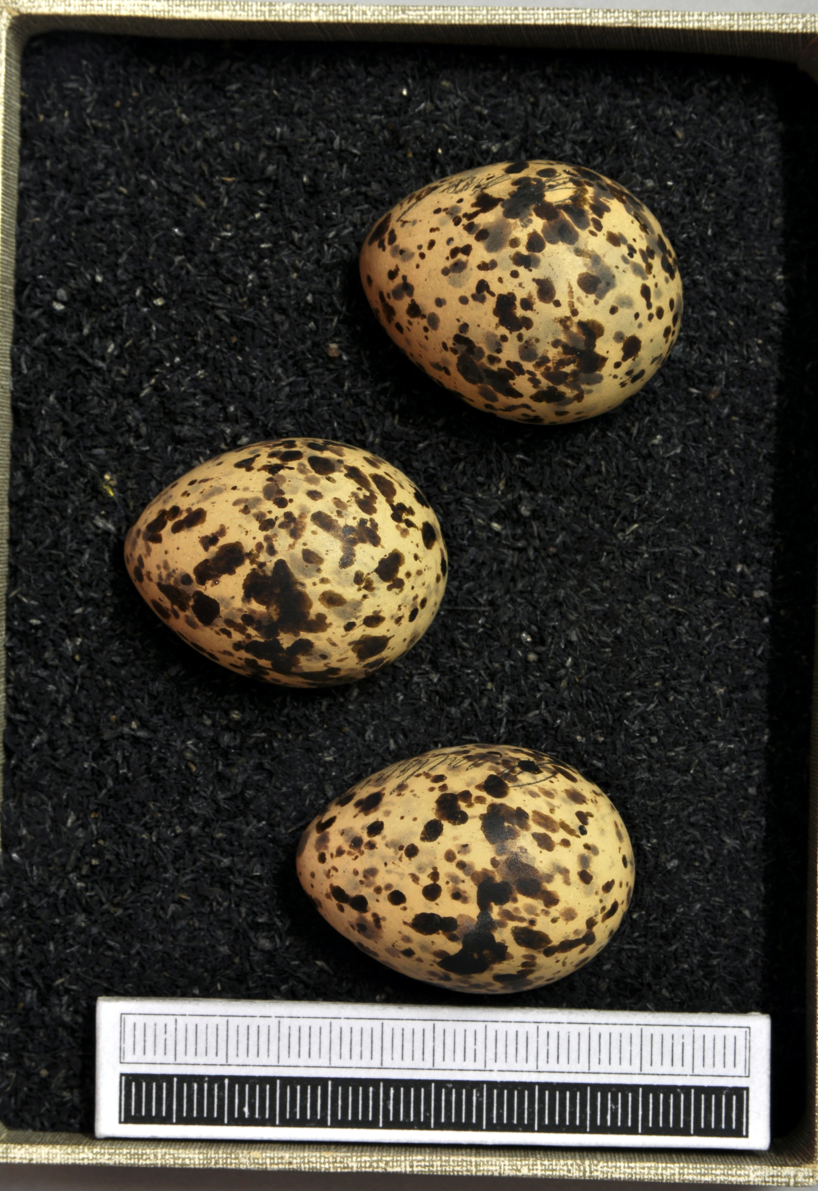 Collared pratincole Glareola pratincola , egg, Coll. Museum Wiesbaden